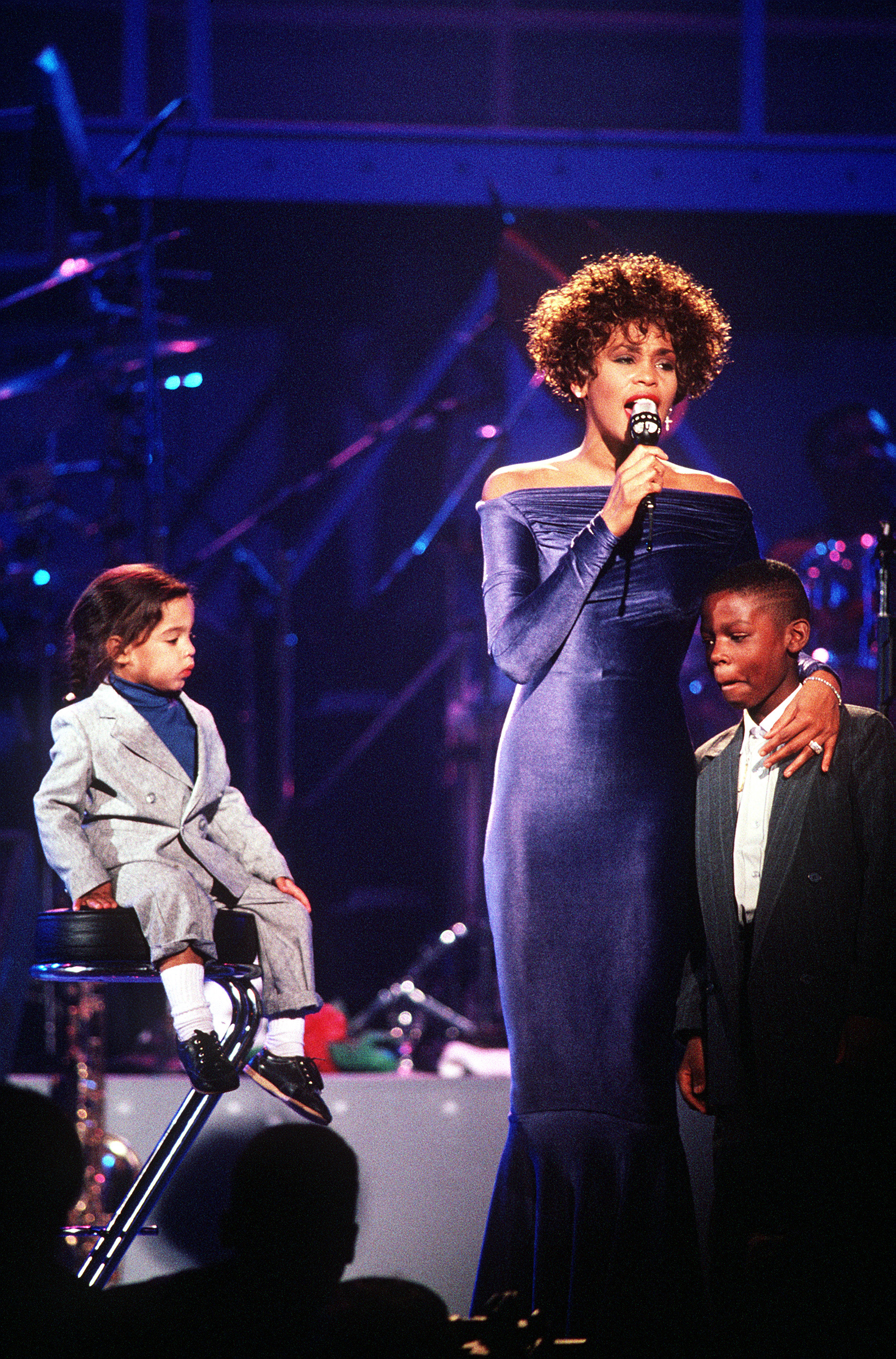 Whitney Houston performing "Greatest Love of All" during the HBO-televised concert "Welcome Home Heroes with Whitney Houston" honoring the troops, who took part in Operation Desert Storm, their families, and military and government dignitaries.